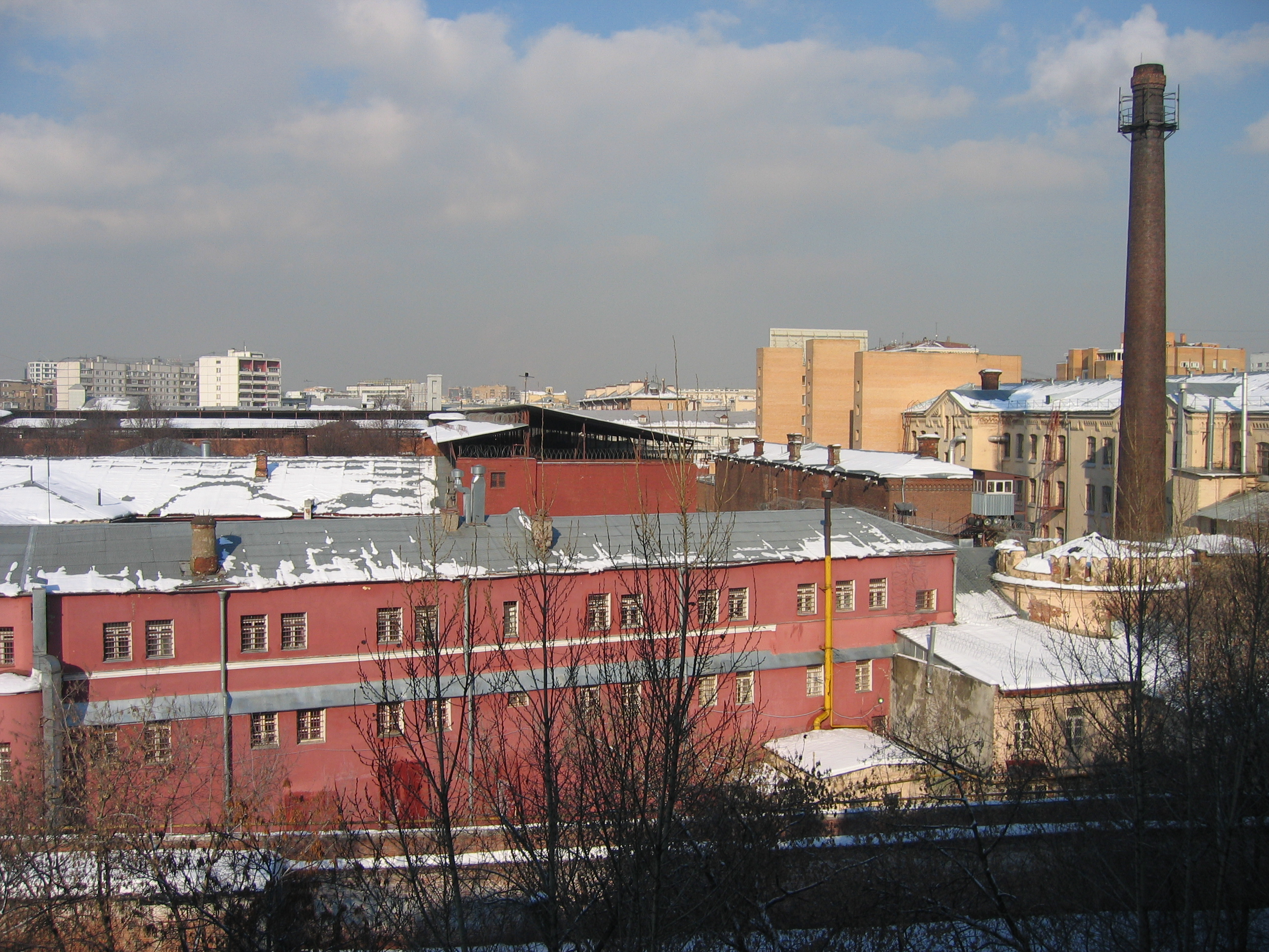 Butyrka Prison in Moscow, one of its old buildings